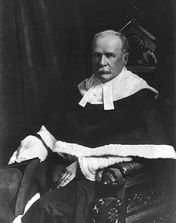 Photo of Charles Fitzpatrick (1853-1942), Chief Justice of Canada